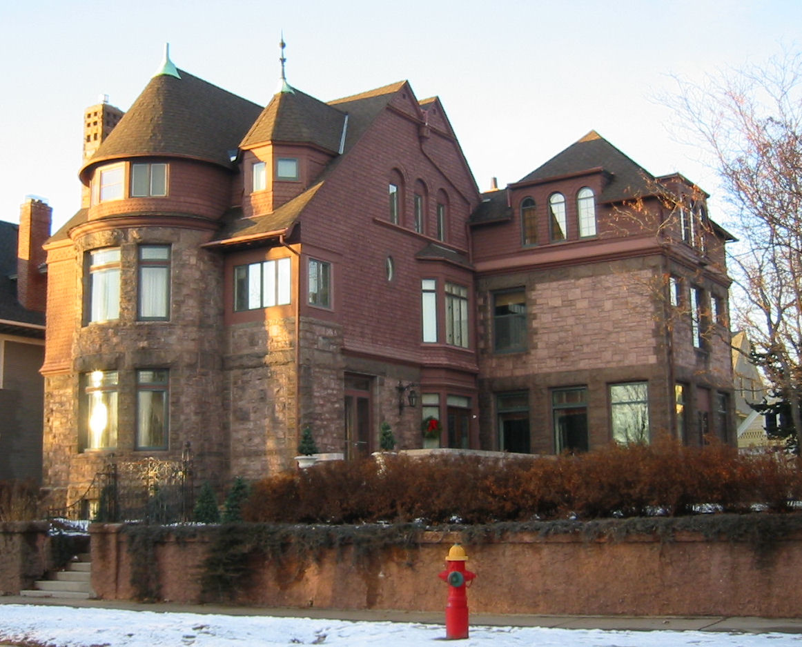 Frank B. Kellogg House in Saint Paul, Minnesota.